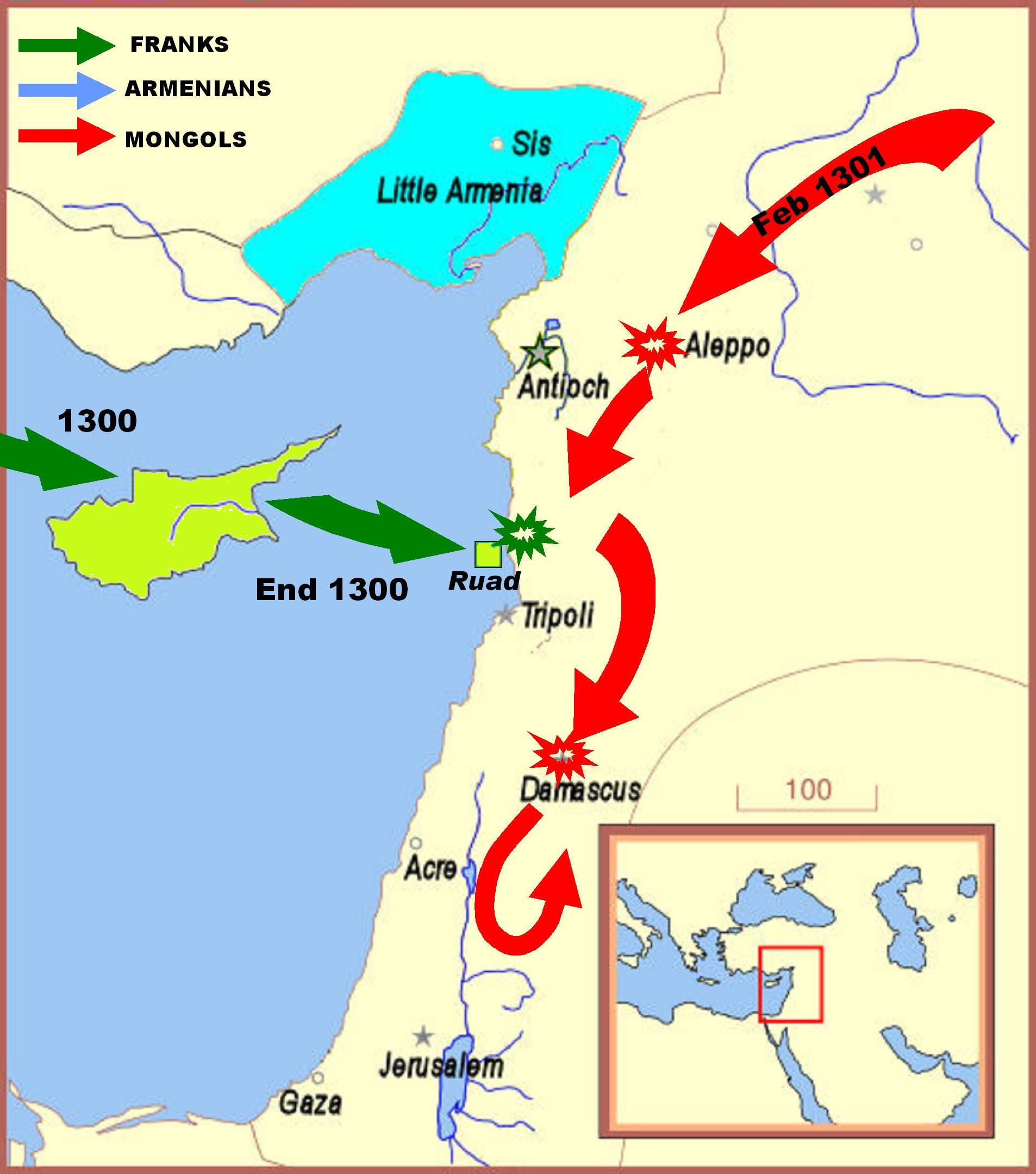 1301 Franco-Mongol Offensive in the Levant